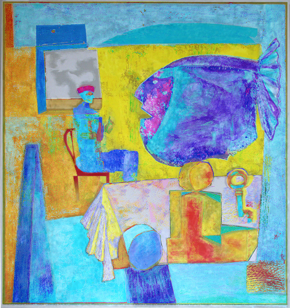 Aspect I. Mixed media. 1972-2002